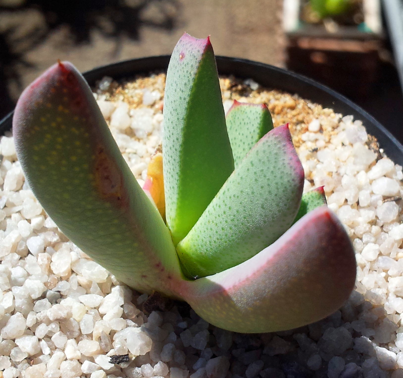 Cheiridopsis excavata - Kirstenbosch